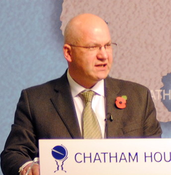 Diplomatic Transformations in International Anarchy, The Martin Wight Memorial Lecture, Thursday 8 November